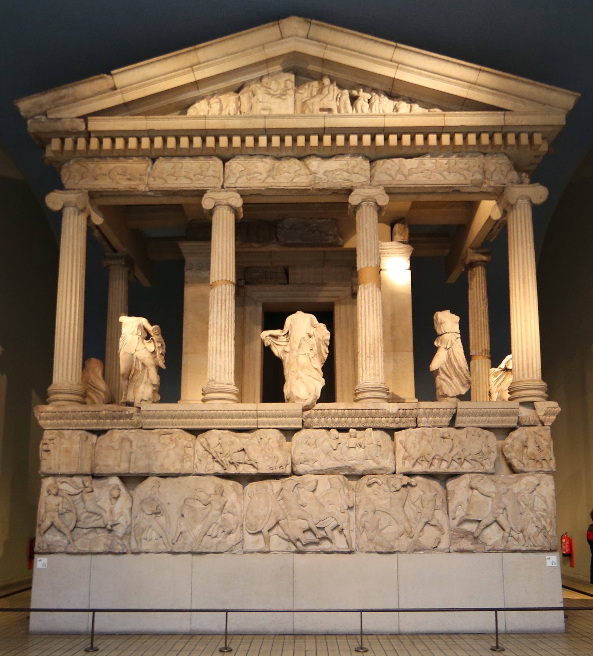 Photo of the Nereid Monument from the front. Edited for perspective correction